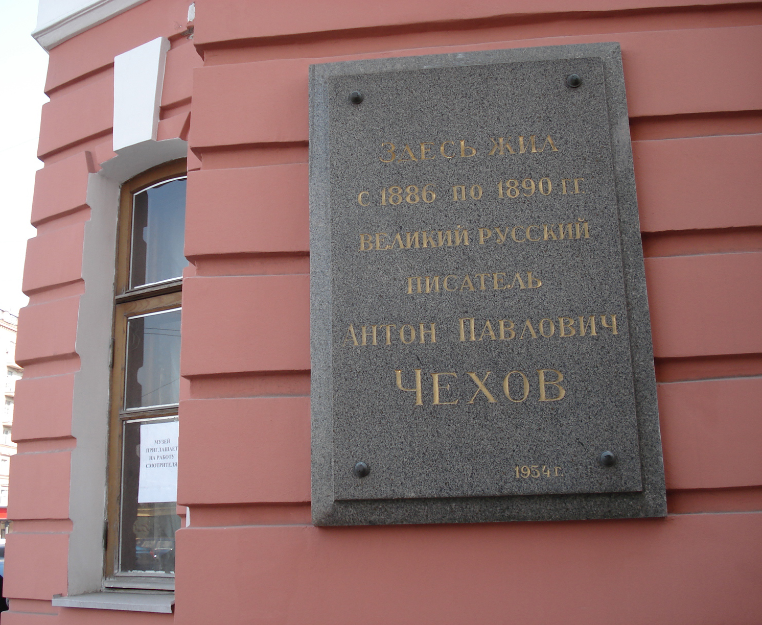 Anton Chekhov house in Moscow (1886-1890), Sadovaya-Kudrinskaya street 6